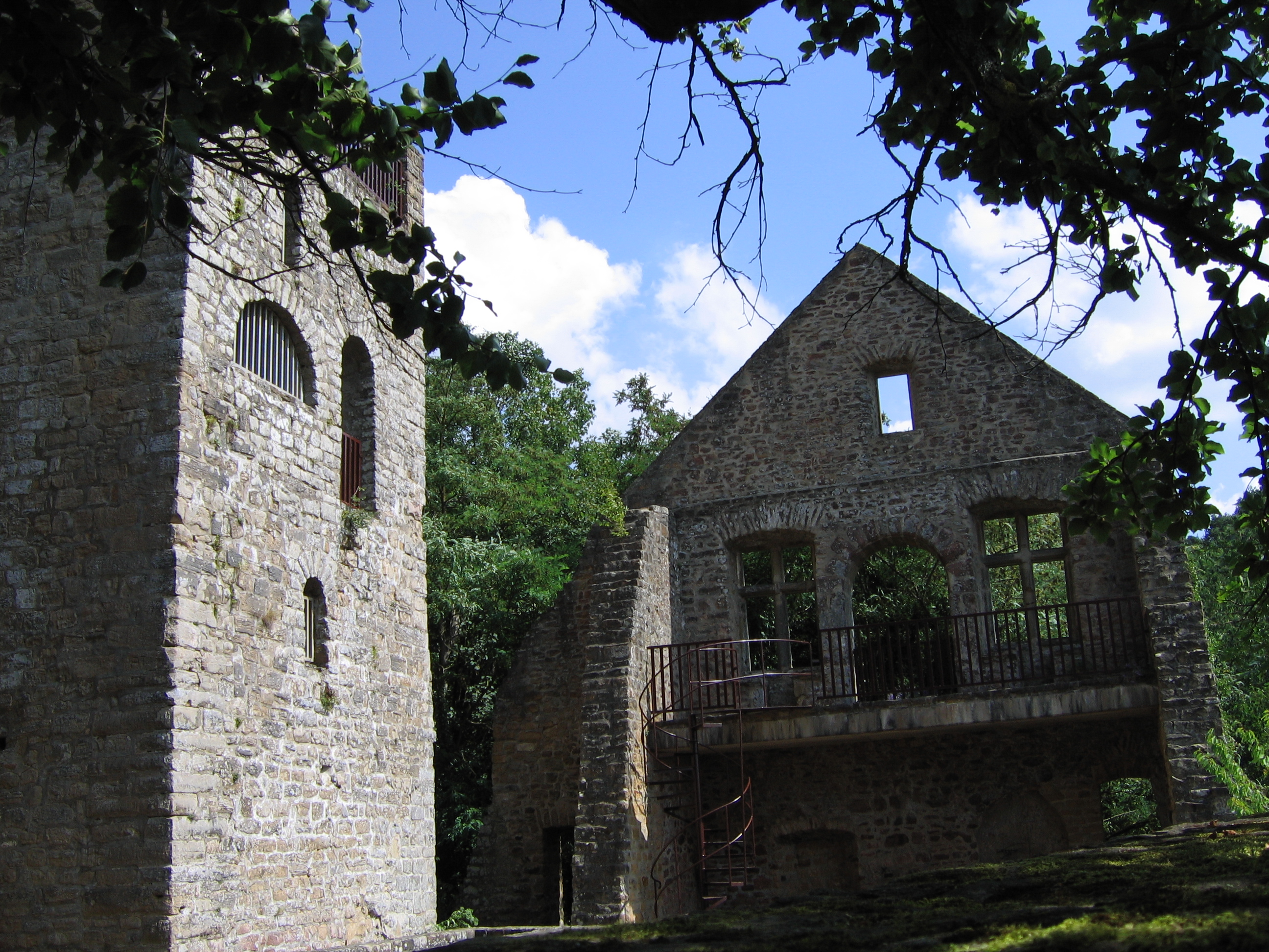 Front view of the "Prümerburg" Castle ruin at Prümzurlay/Germany. On the left the pentagonal keep, on the right the remains of the former "Pallas" living-building.